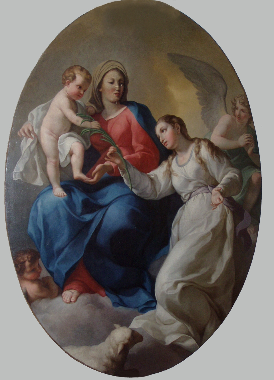 a painting by Cristoforo Unterperger: Madonna with child and saint Agnes offering a palm leaf (Rome, Almo Collegio Capranica)